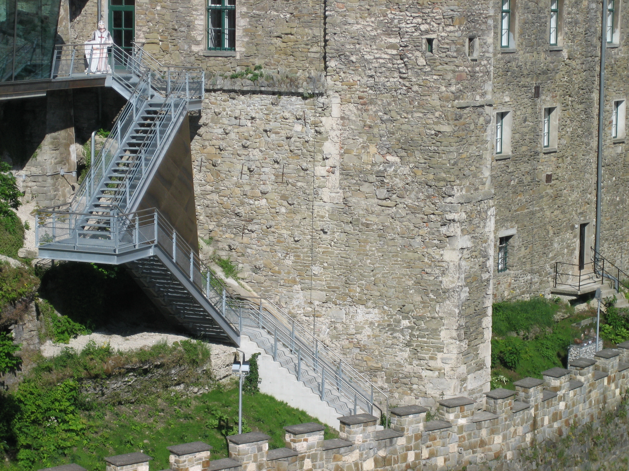 Rothschild-Castle, Waidhofen an der Ybbs, Lower Austria, Austria, Austria: Detail of the former medieval residential building. This wall (late 12th century, early 13th century) is the oldest part of the Castle.